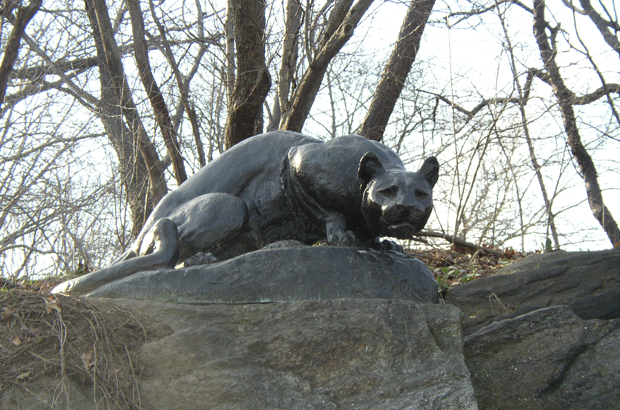 Tiger sculpture in the Central Park in New York, one of about 1.200 sculptures maintaned by the New York City Department of Parks and Recreation